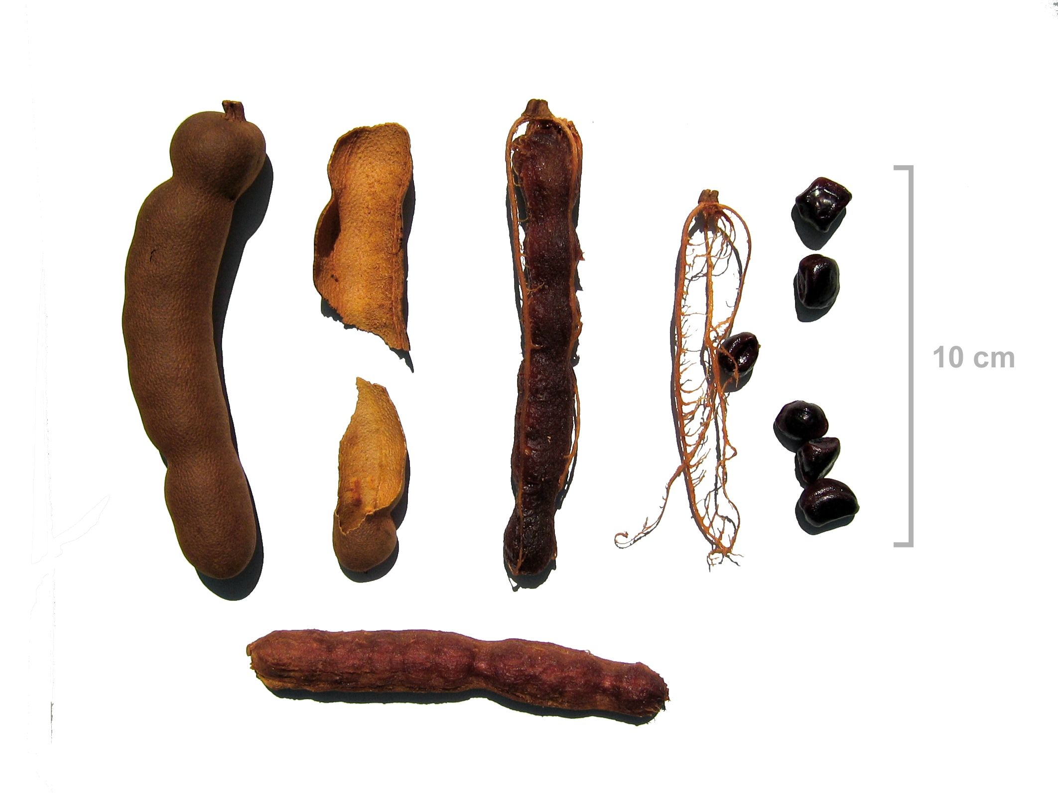 Tamarind pods from Thailand, edible part on the bottom of the picture